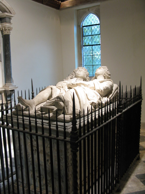 Monument in All Saints church Waldershare. This monument is in a purpose built wing of this small church, the plaque marking this monument is above it on the wall and can be seen here 1610090